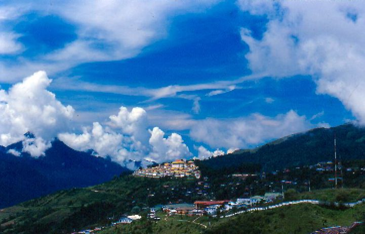 Tawang Monastry